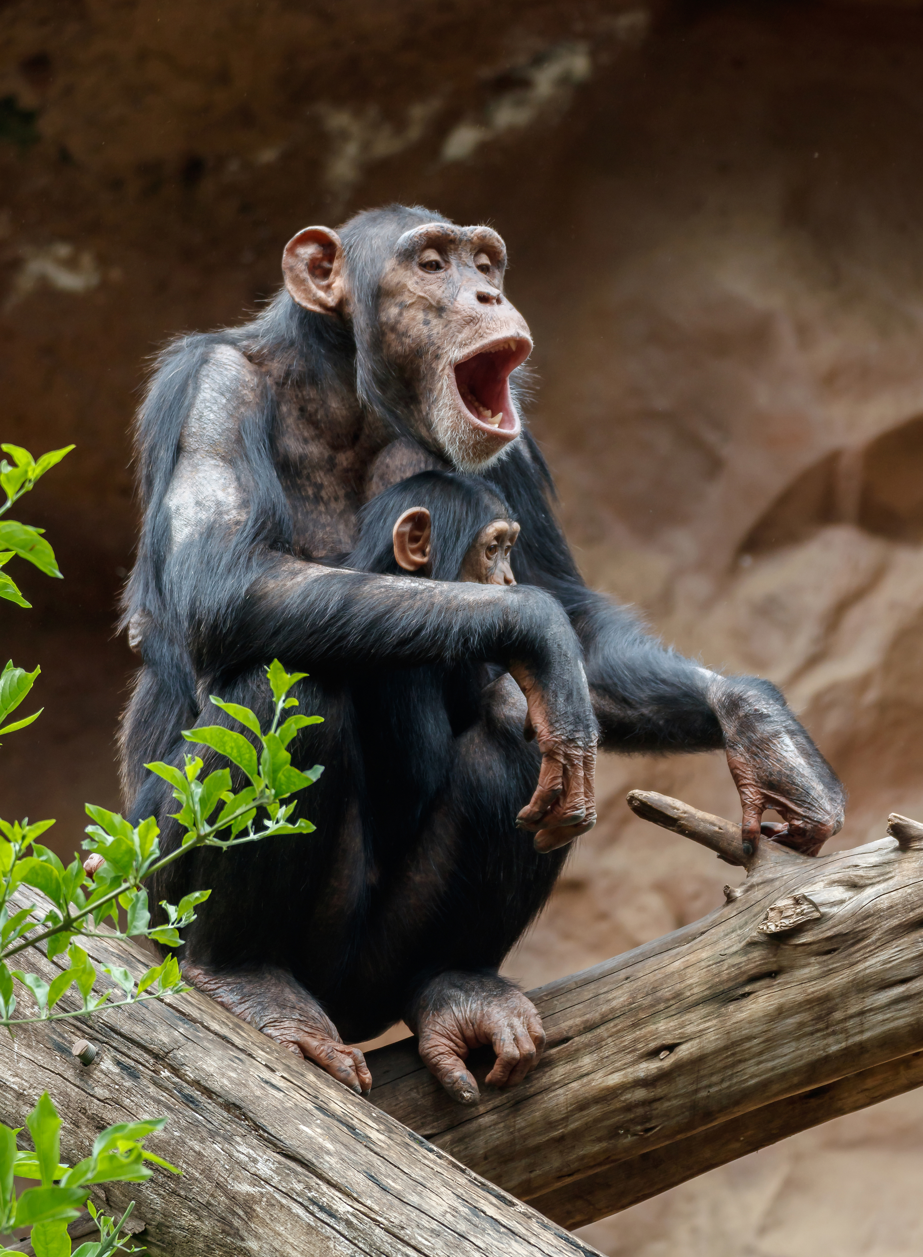 Pan troglodytes (Blumenbach, 1775), Common chimpanzee; Loro Parque, Tenerife, Canary Islands, Spain.